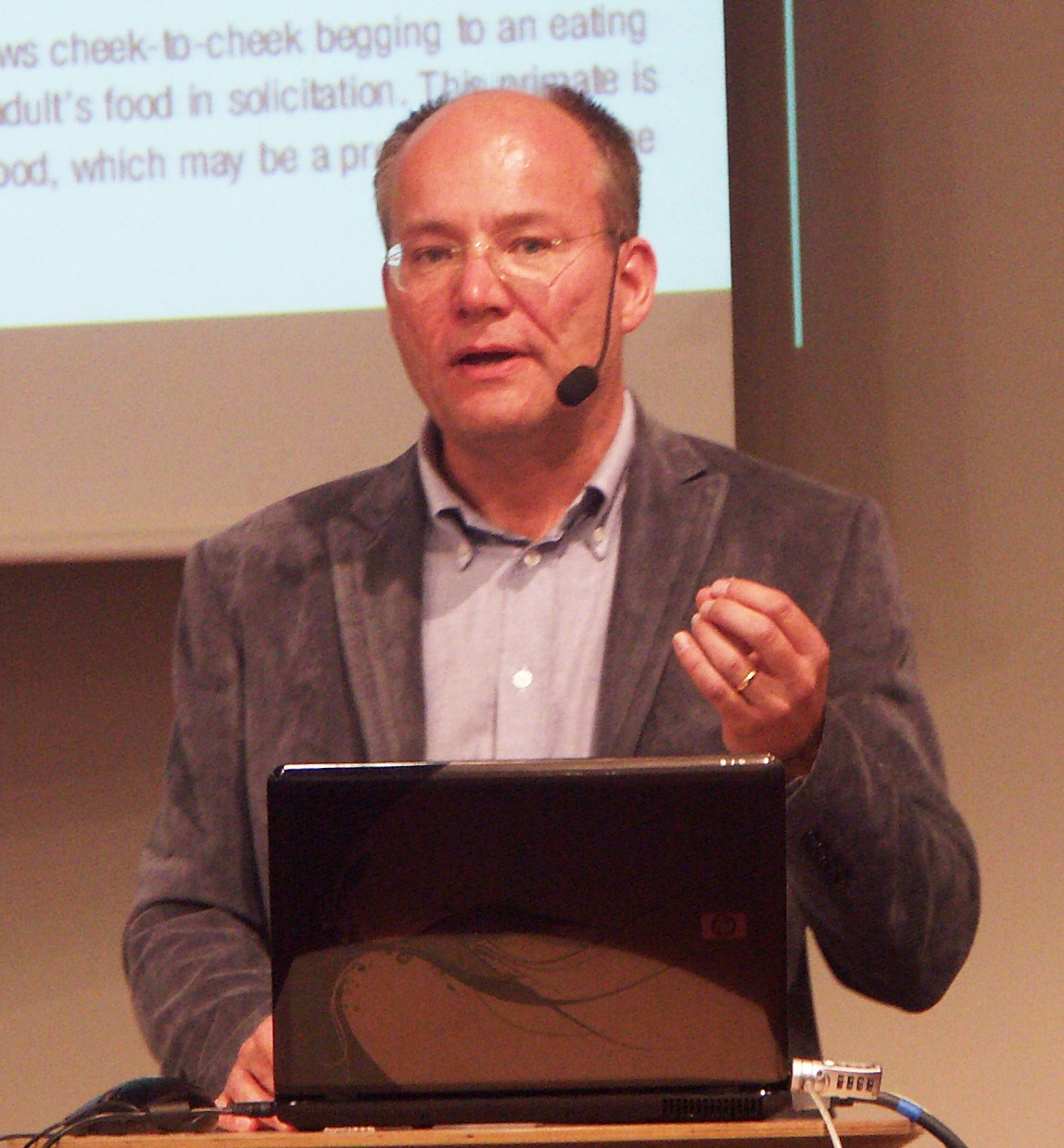 Swedish physician and university professor Johan Frostegård.